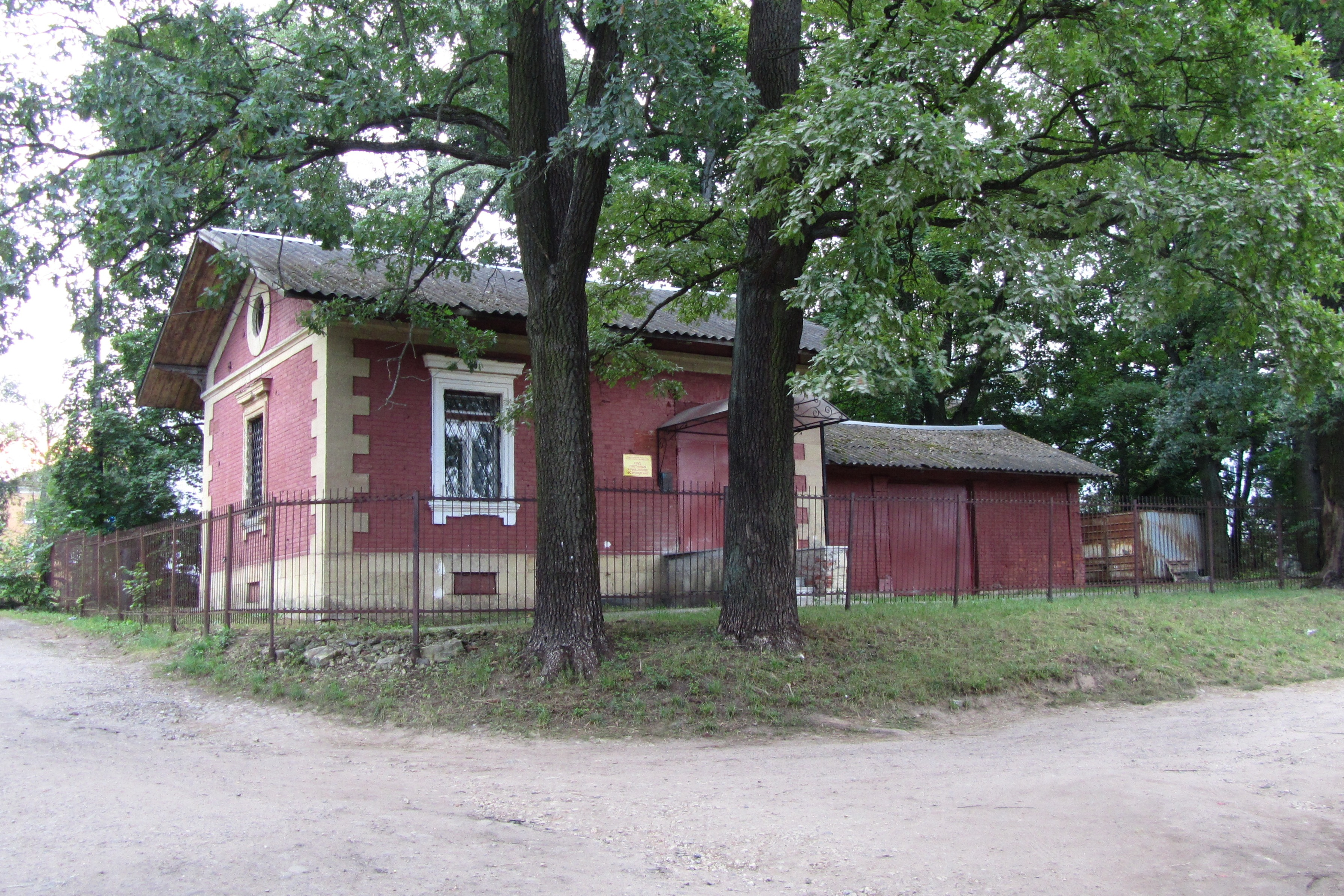 Guardhouse No 2 in Priorate park, Gathina, Russia